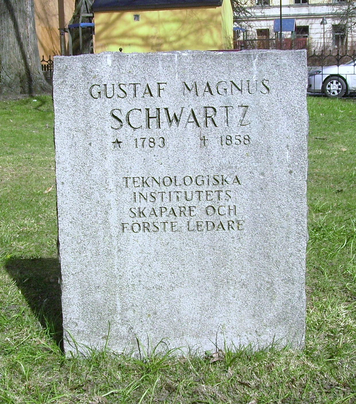 Picture of Gustaf Magnus Schwartz's grave at Katarina kyrkogård in Stockholm